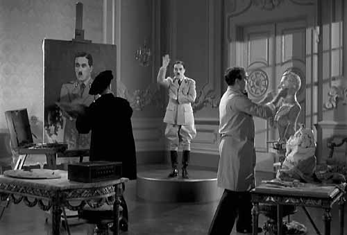 Charlie Chaplin from the film The Great Dictator